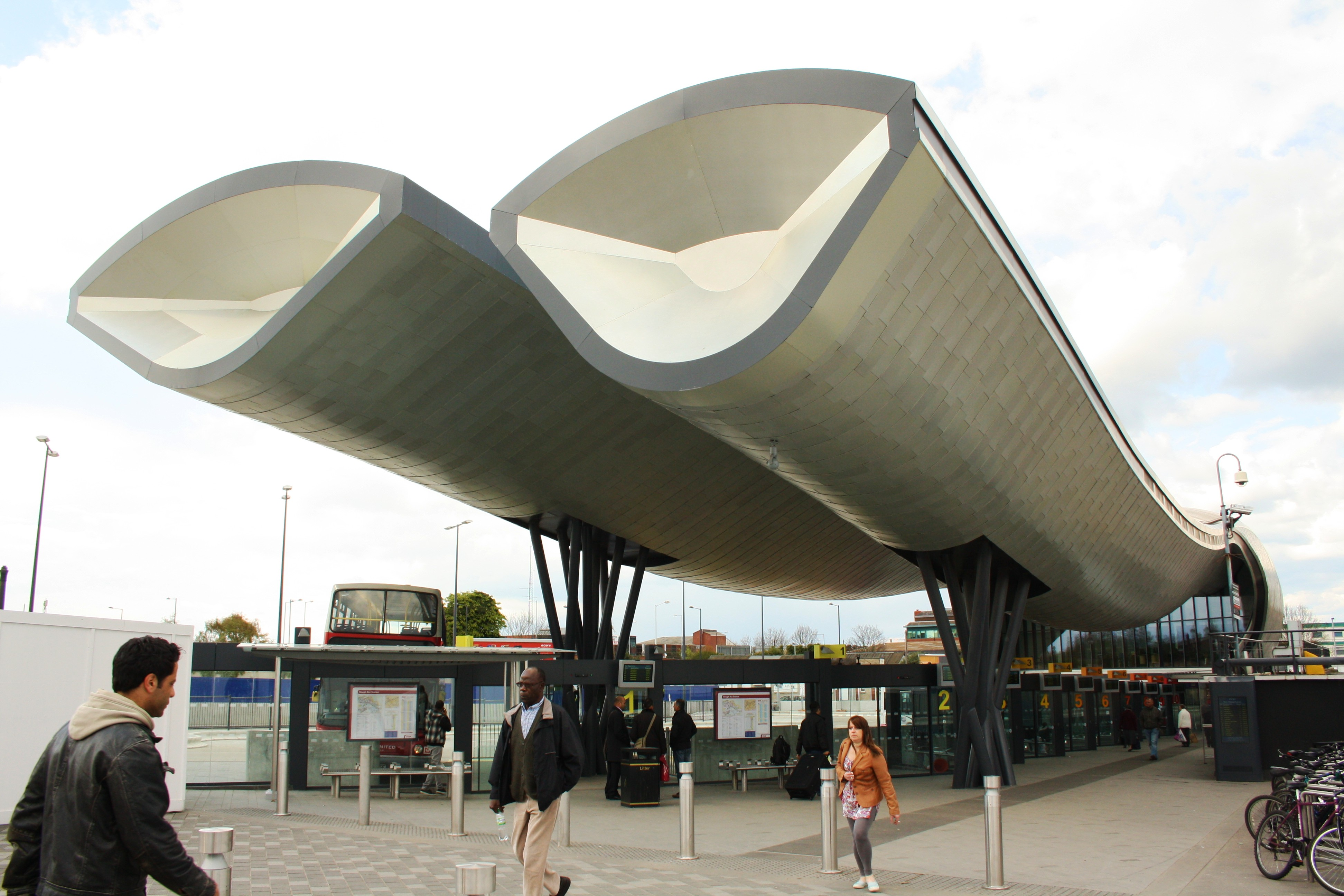 New bus station in Slough